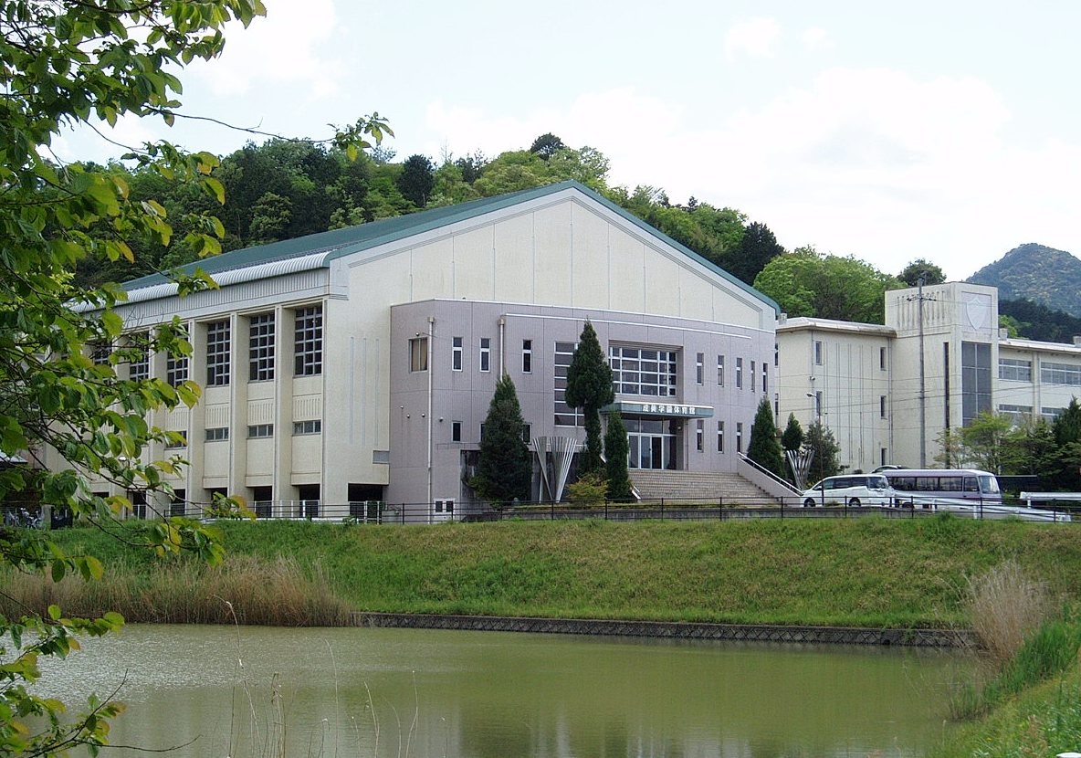 Gym of the University of Fukuchiyama located in Fukuchiyama, Kyoto, Japan.